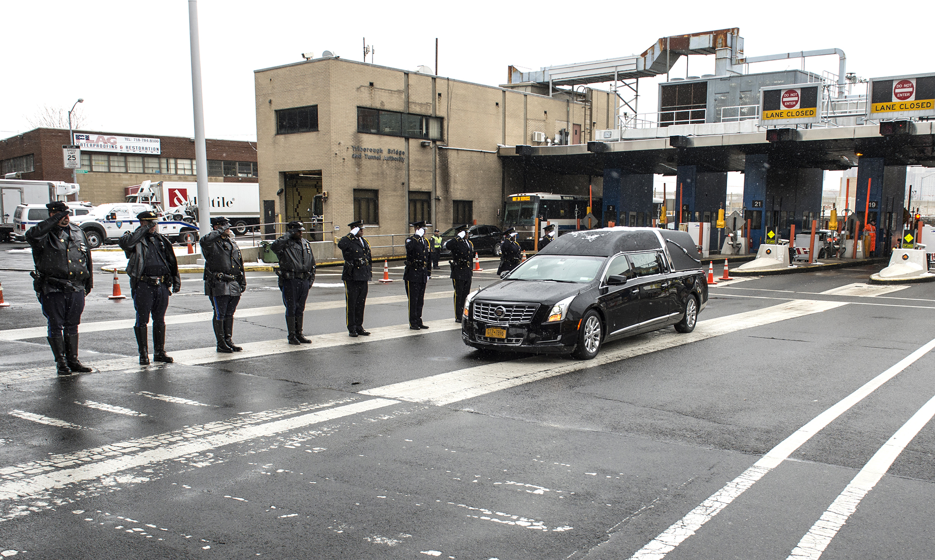 Officers from MTA Bridges and Tunnels Special Operations and Honor Guard give a final salute to former New York State Governor Mario Cuomo as his hearse passes through the Queens Midtown Tunnel on January 6, 2015. Photo: Metropolitan Transportation Authority / Patrick Cashin.